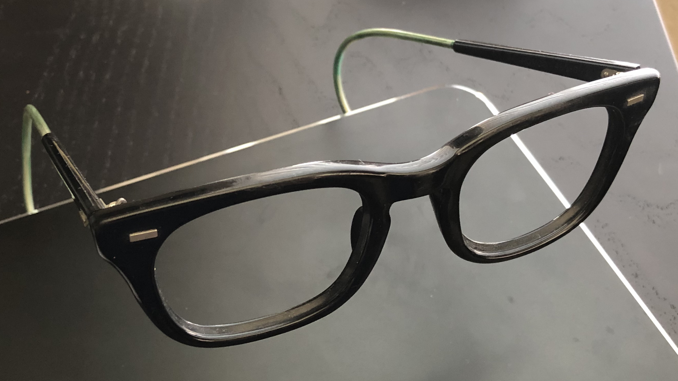 Army issue glasses from the mid 1980s. Stamped: ROMCO 4 1/2 - 6 1/2 USG 48⎕22